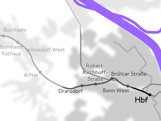 Section of the Vorgebirgsbahn in Bonn.